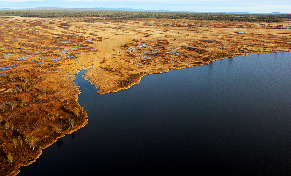 Bog around lake Muddusluobbal in Muddus national park